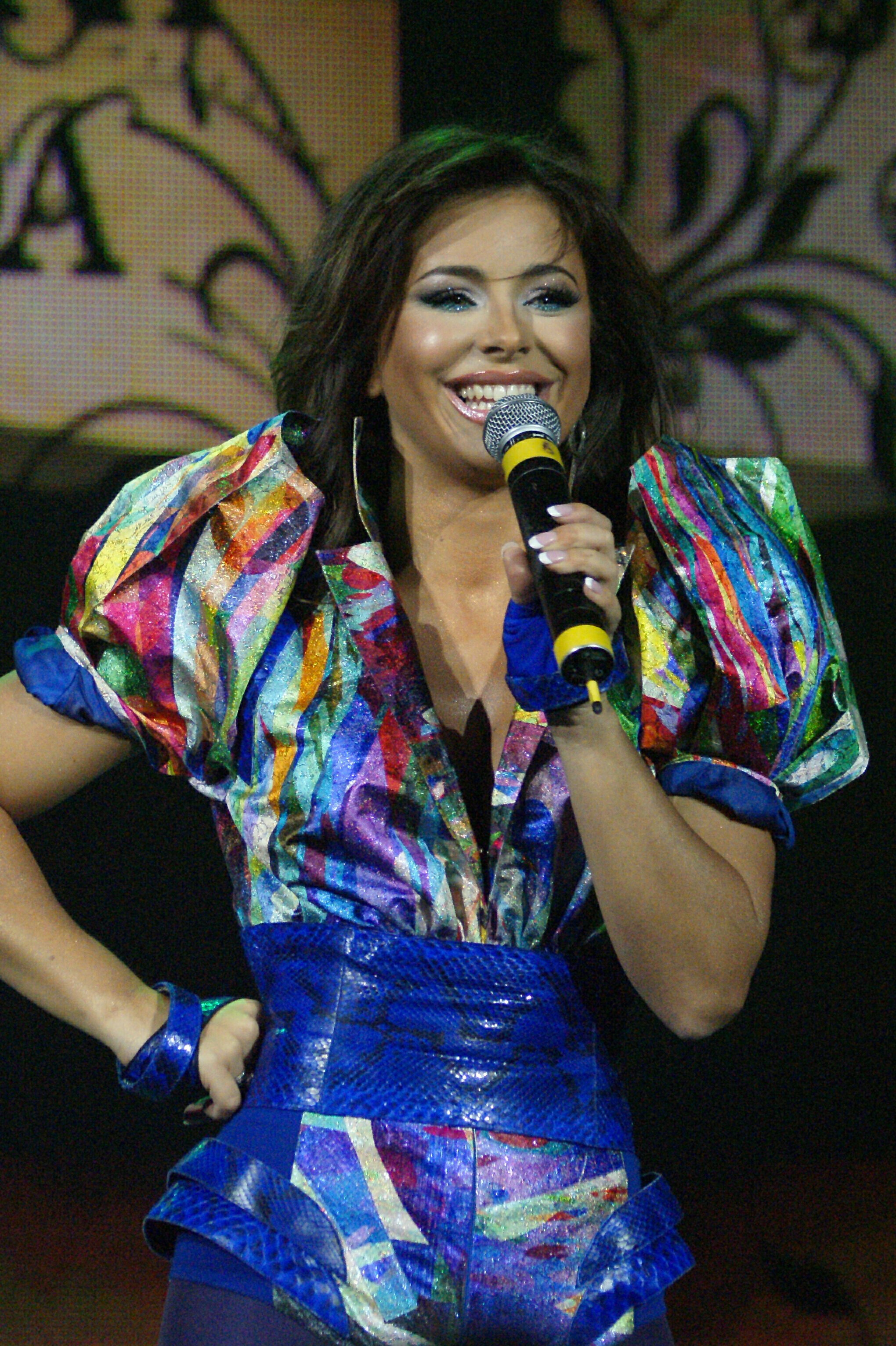 Ani Lorak at an ESC 2009 Party on May 9, 2009